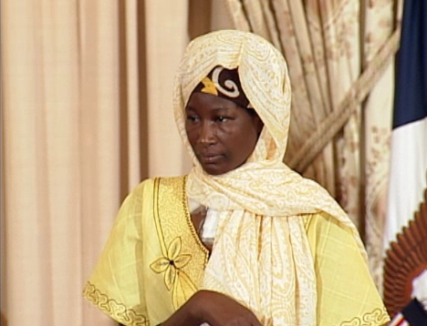 Mar. 11, 2009: Secretary of State Hillary Rodham Clinton hosted the 3rd annual International Women of Courage Awards ceremony with guest speaker First Lady Michelle Obama in the Ben Franklin Room at the State Department.